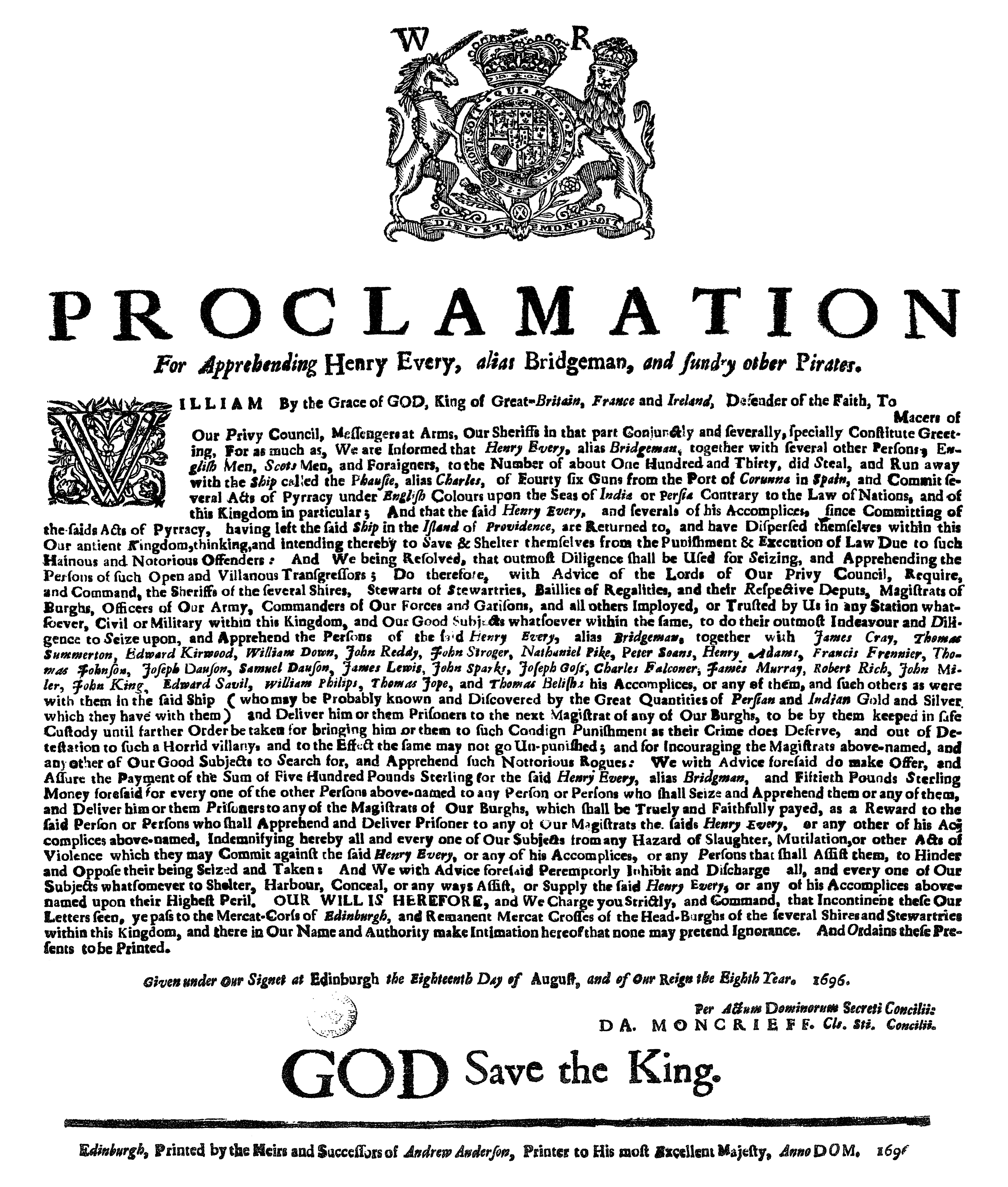 Proclamation for apprehending Henry Every, alias Bridgeman, and sundry other pirates. Edinburgh: Printed by the heirs and successors of Andrew Anderson, Printer to his most excellent Majesty, Anno Dom. 1696. Privy Council of Scotland.